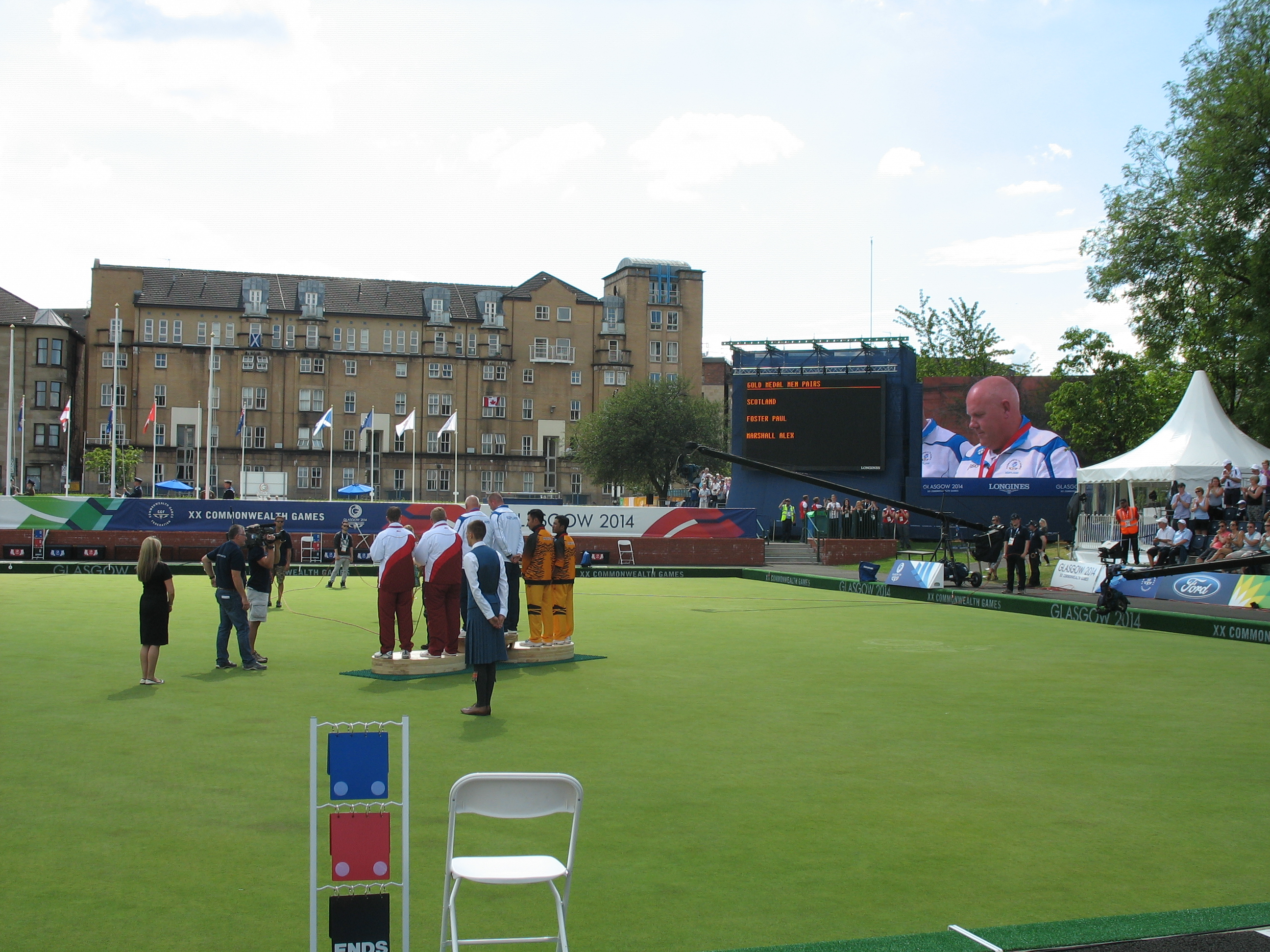 Medal award ceremony for men's doubles teams at the 2014 Commonwealth Games in Glasgow with Paul Foster (also on large screen) & Alex Marshall (Scotland), Muhammad Hizlee Abdul Rais & Fairul Izwan Adb Muin (Malaysia) and Andrew Knapper & Sam Tolchard (England)